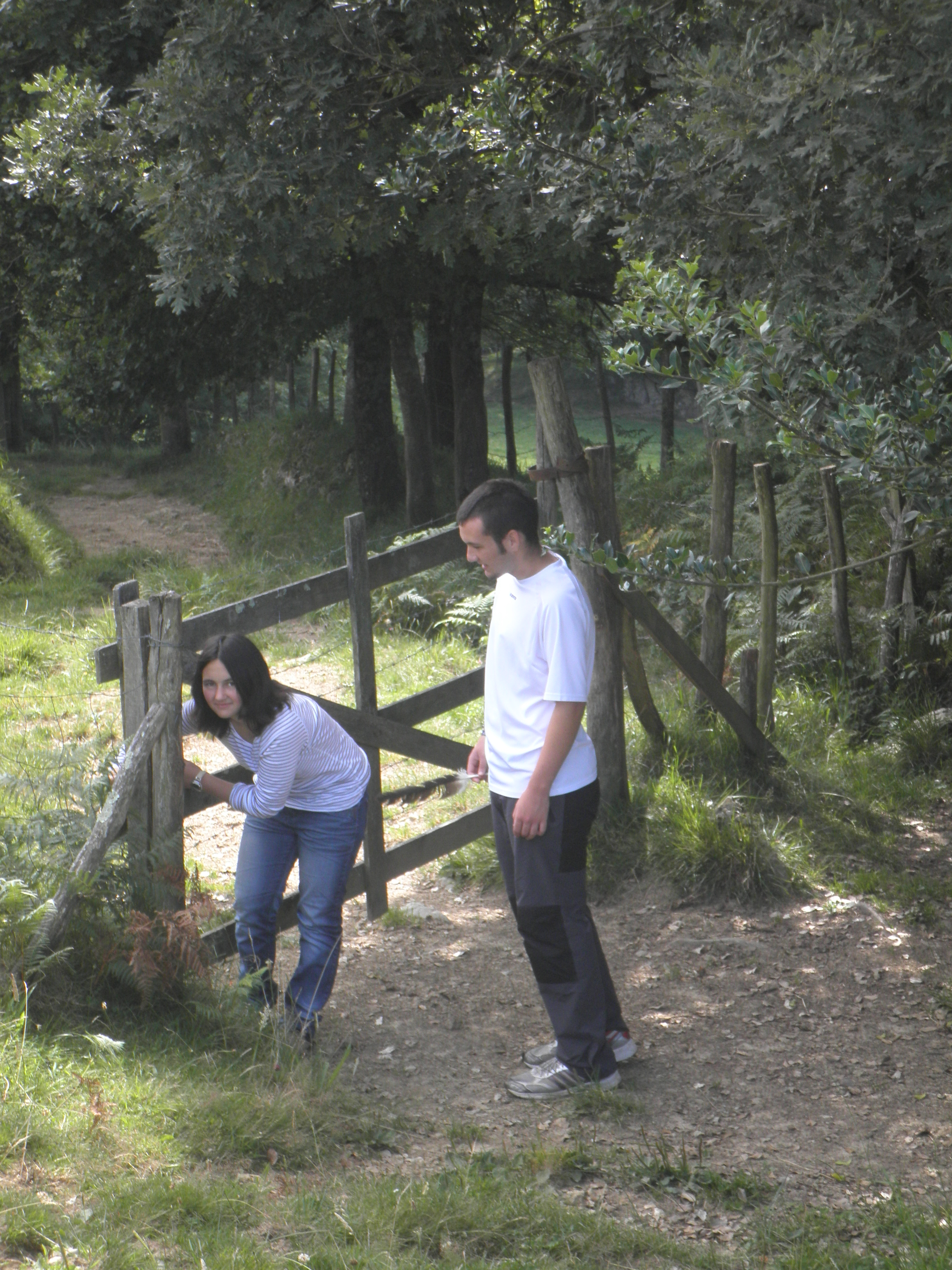 Fence in the Basque Country.